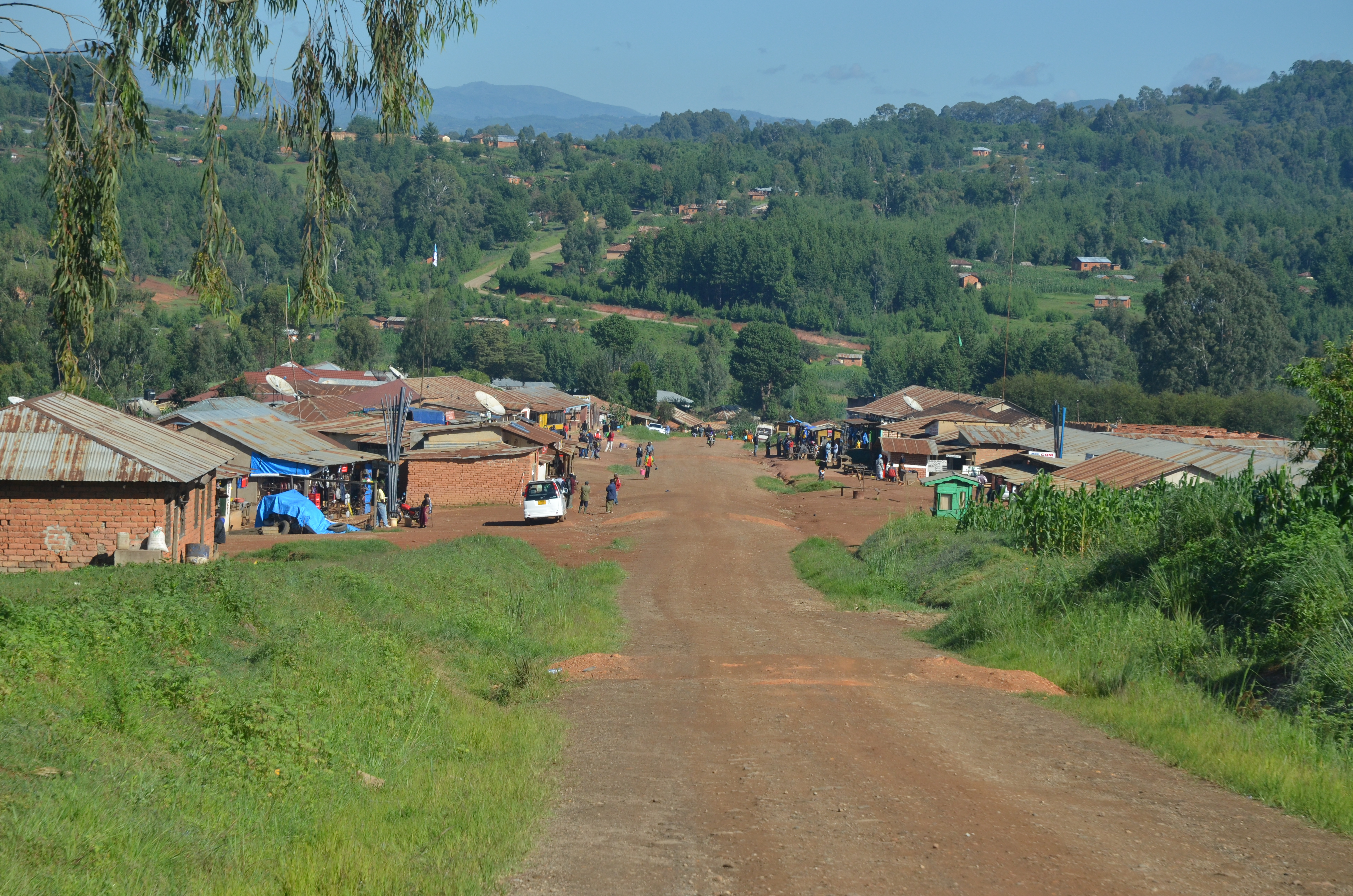 The village Ikonda in the Tanzanian Southern Highlands (Makete District, Njombe Region).